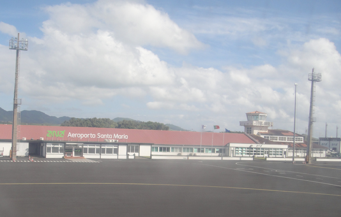 The main airport building at Santa Maria Airport (Azores) (IATA Code: SMA)